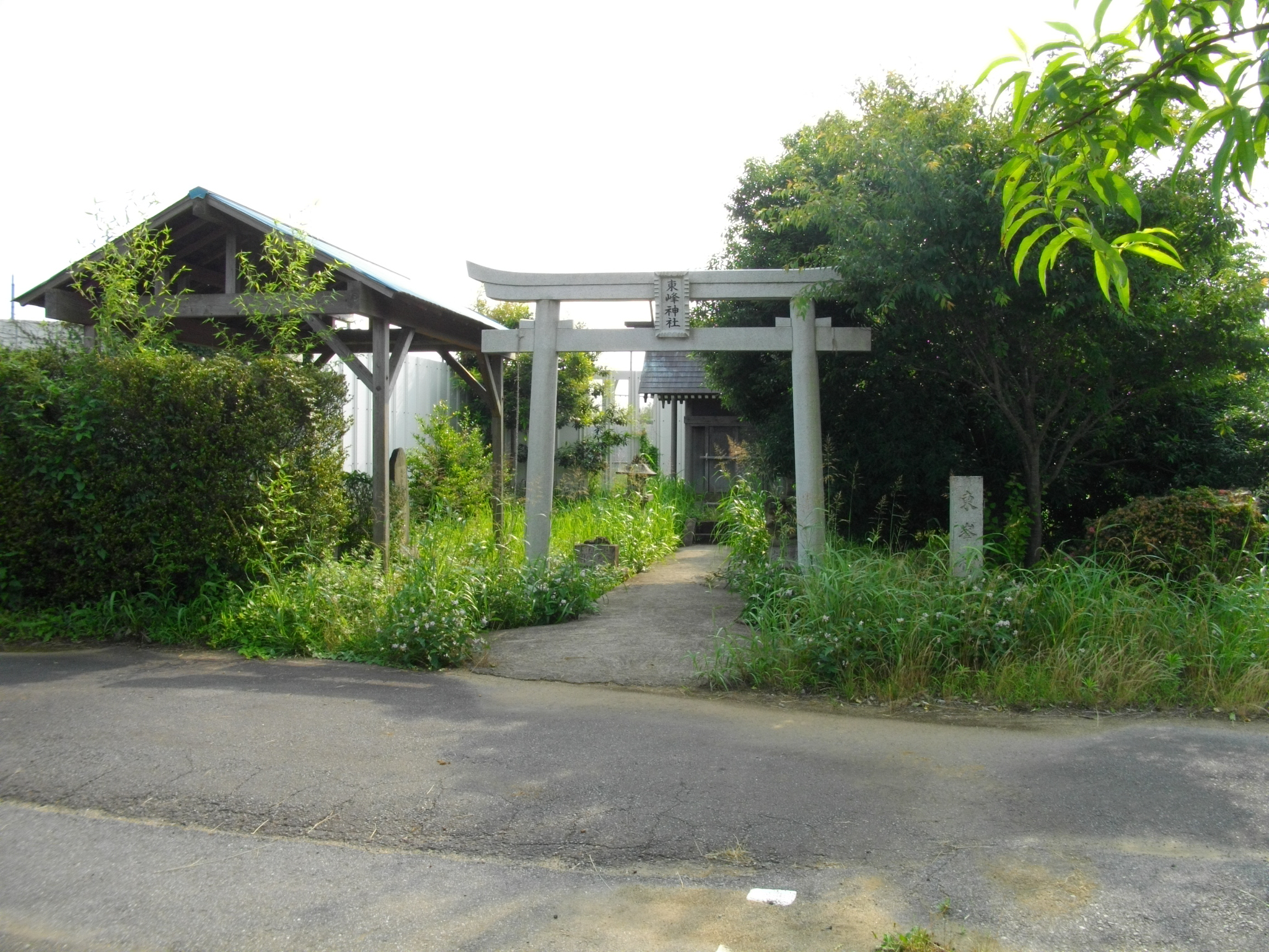 Toho Shrine